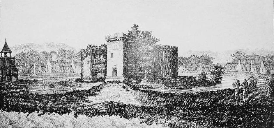 engraving showing Rothesay Castle and tollbooth in around 1680